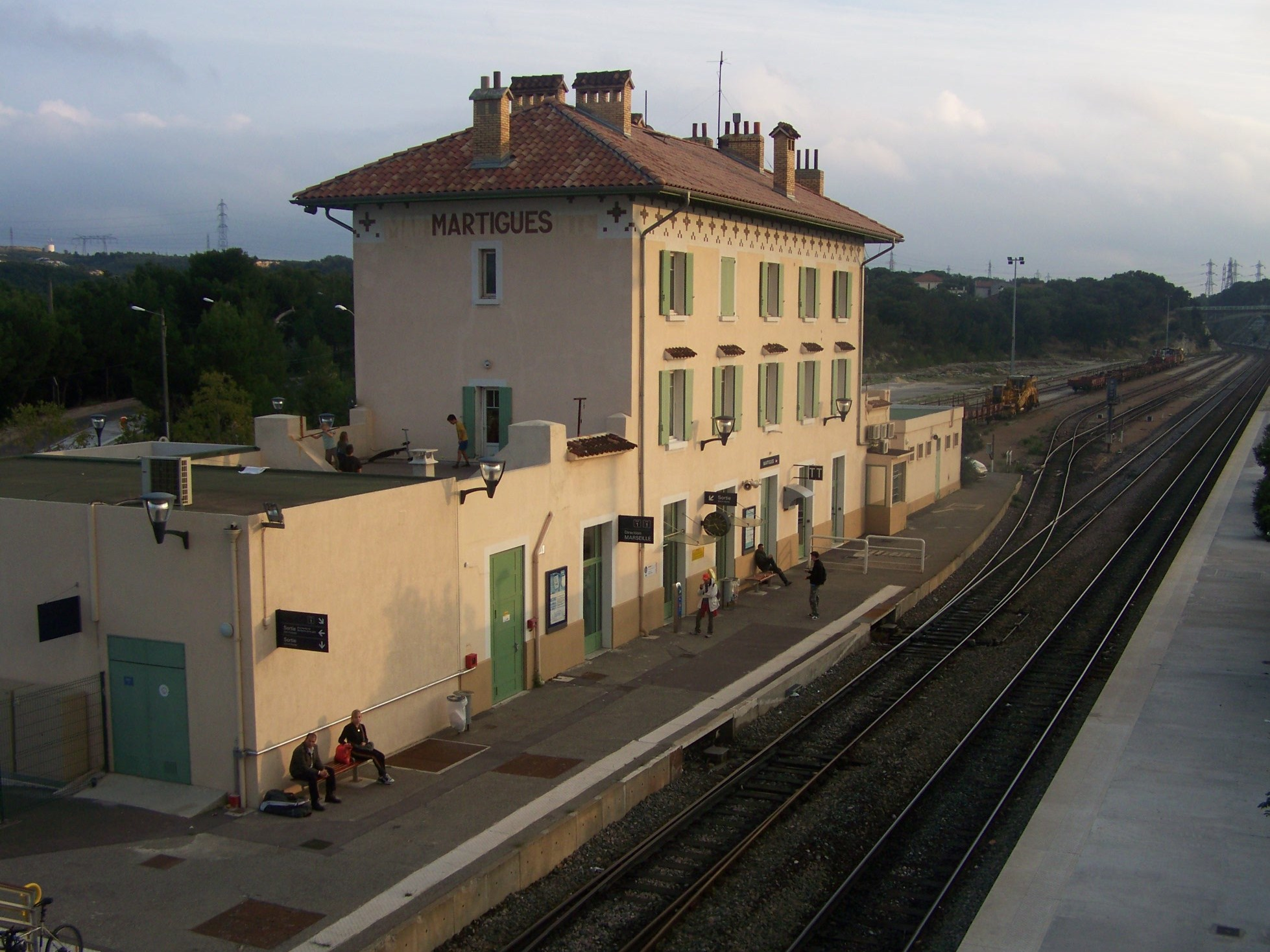 Tracks, platforms and building of gare de Martigues railway station, in Martigues, Bouches-du-Rhône, France.